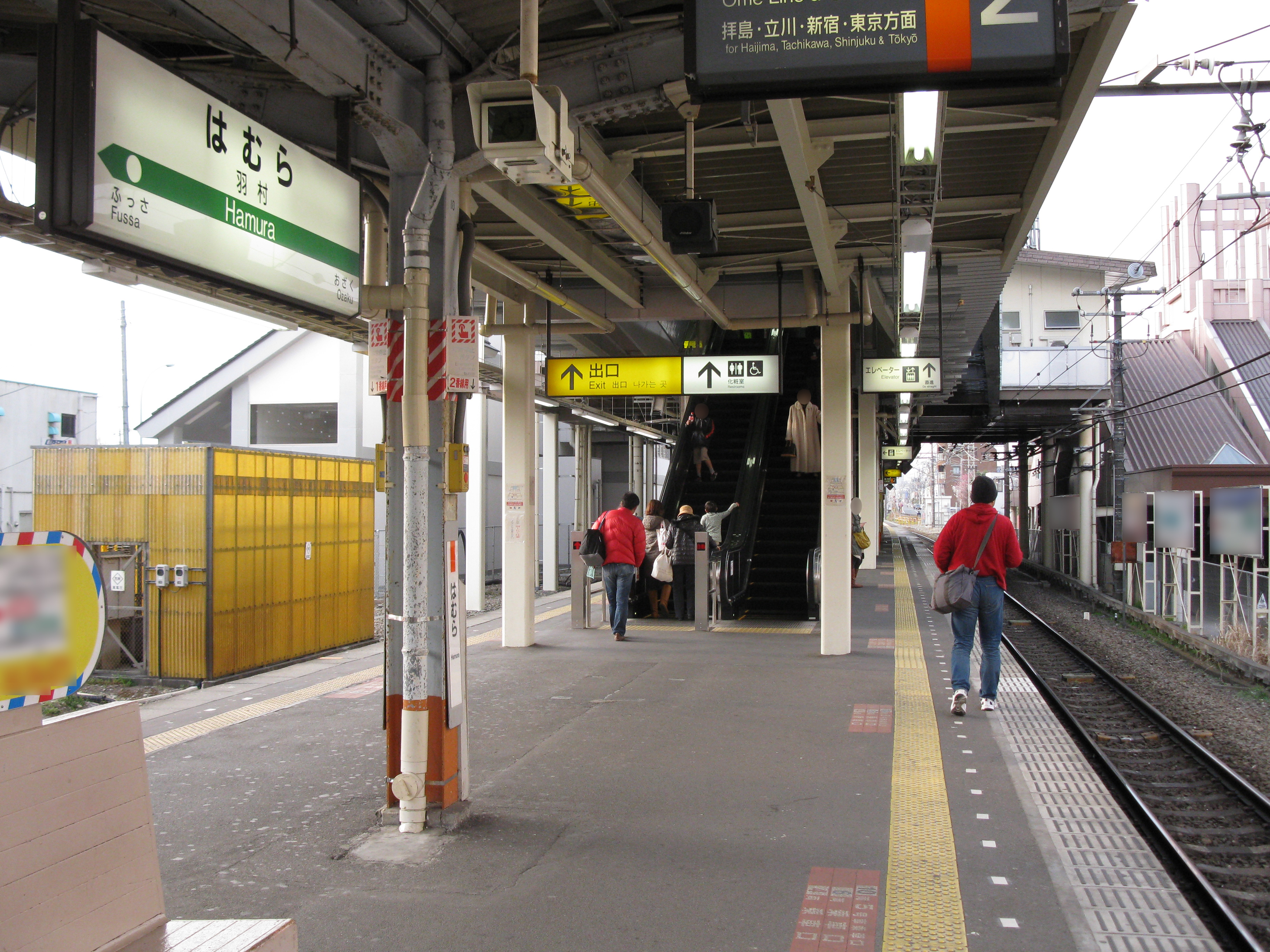 Hamura Station platform (East Japan Railway Ōme Line)